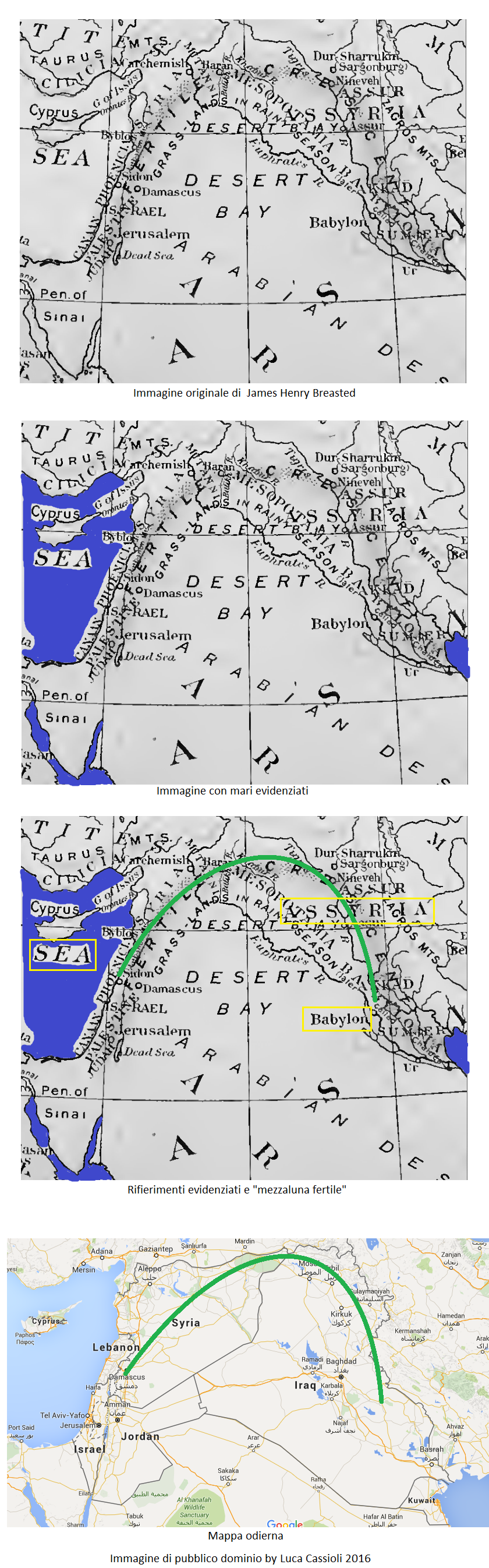 Fertile Crescent